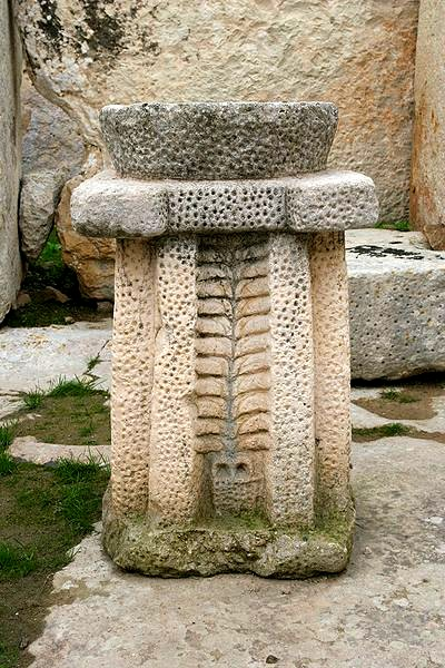 Hagar Qim, Malta This media is about Maltese cultural property with inventory number 25.